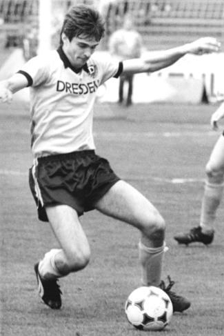 Title: Dynamo Dresden - FC Carl Zeiss Jena 0:0 Factual corrections and alternative descriptions are encouraged separately from the original description. Additionally errors can be reported at this page to inform the Bundesarchiv. Original historic description: ADN-ZB-Häßler -10.5.86-pe-Dresden: Fußball-Oberliga- Dynamo Dresden - FC Carl Zeiss Jena 0:0- In dieser Szene kämpfen Dirk Lozert (l.) aus Dresden und Matthias Dözchner (r.) von derselben Mannschaft um den Ball mit dem Jenaer Jürgen Paab.